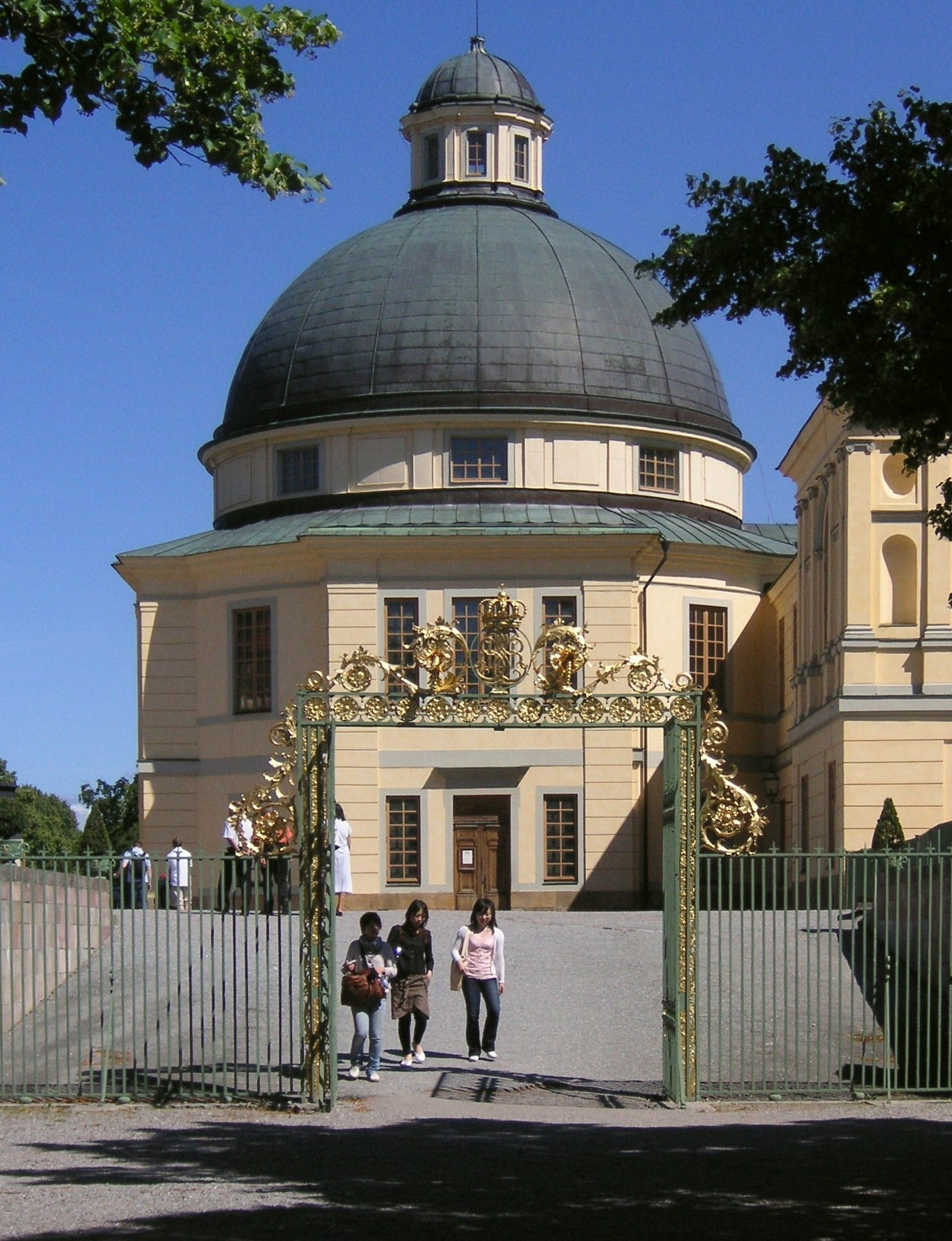 Royal Domain of Drottningholm, church